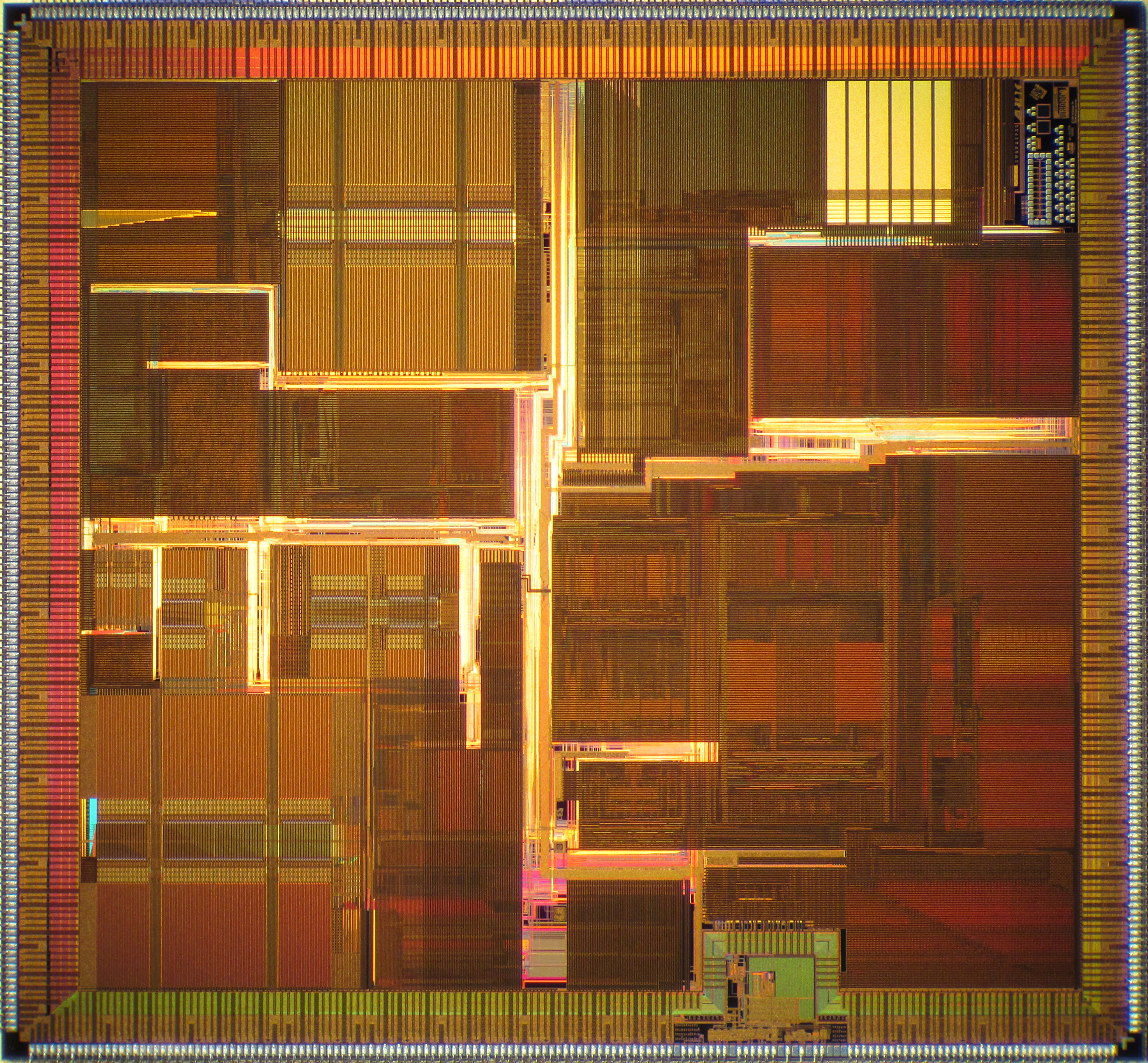 Die shot of NEC VR10000 (D30700LRS-250) MIPS microprocessor.